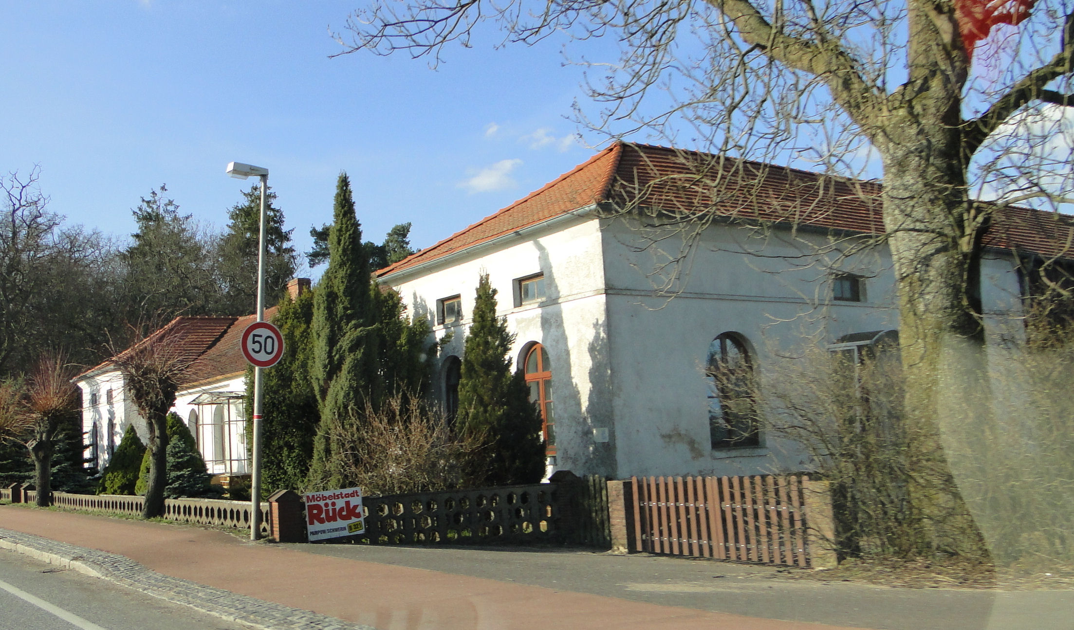 Former stable at road between Schwerin and Ludwigslust (today Bundesstraße 106) in Ortkrug, district Ludwigslust-Parchim, Mecklenburg-Vorpommern, Germany